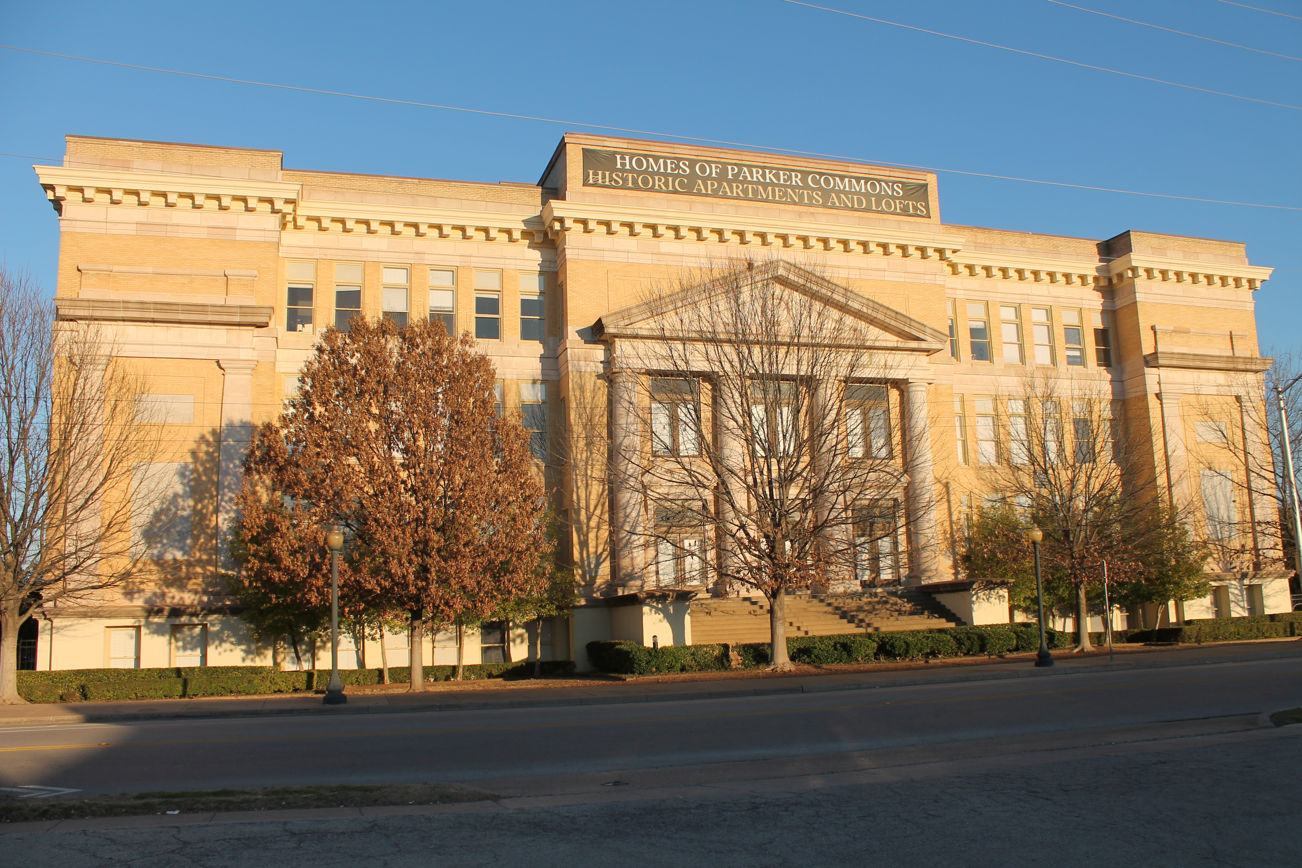 Fort Worth High School is located on 1015 South Jennings in Fort Worth, Texas.